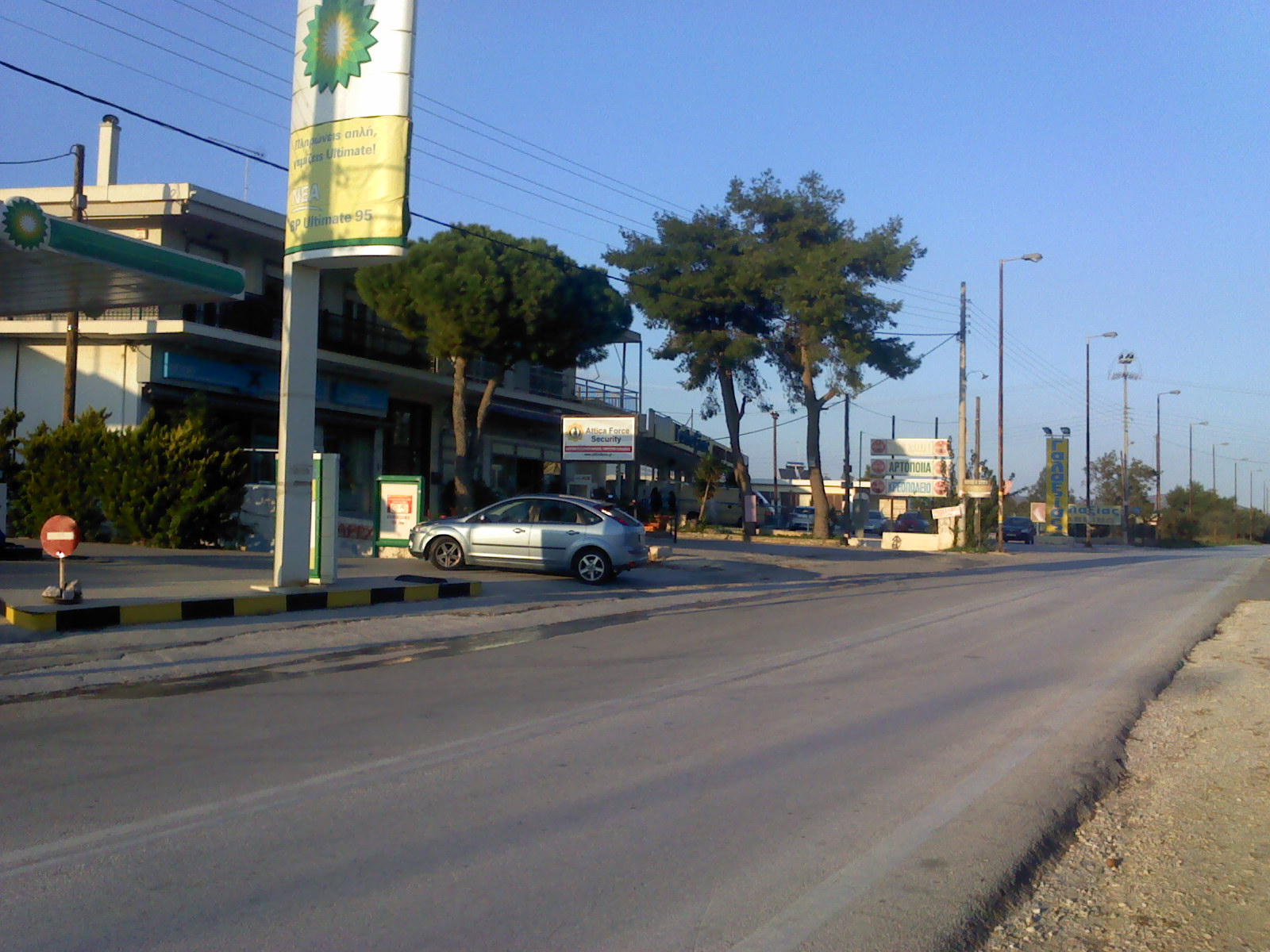 Commercial center A.Agias Marinas